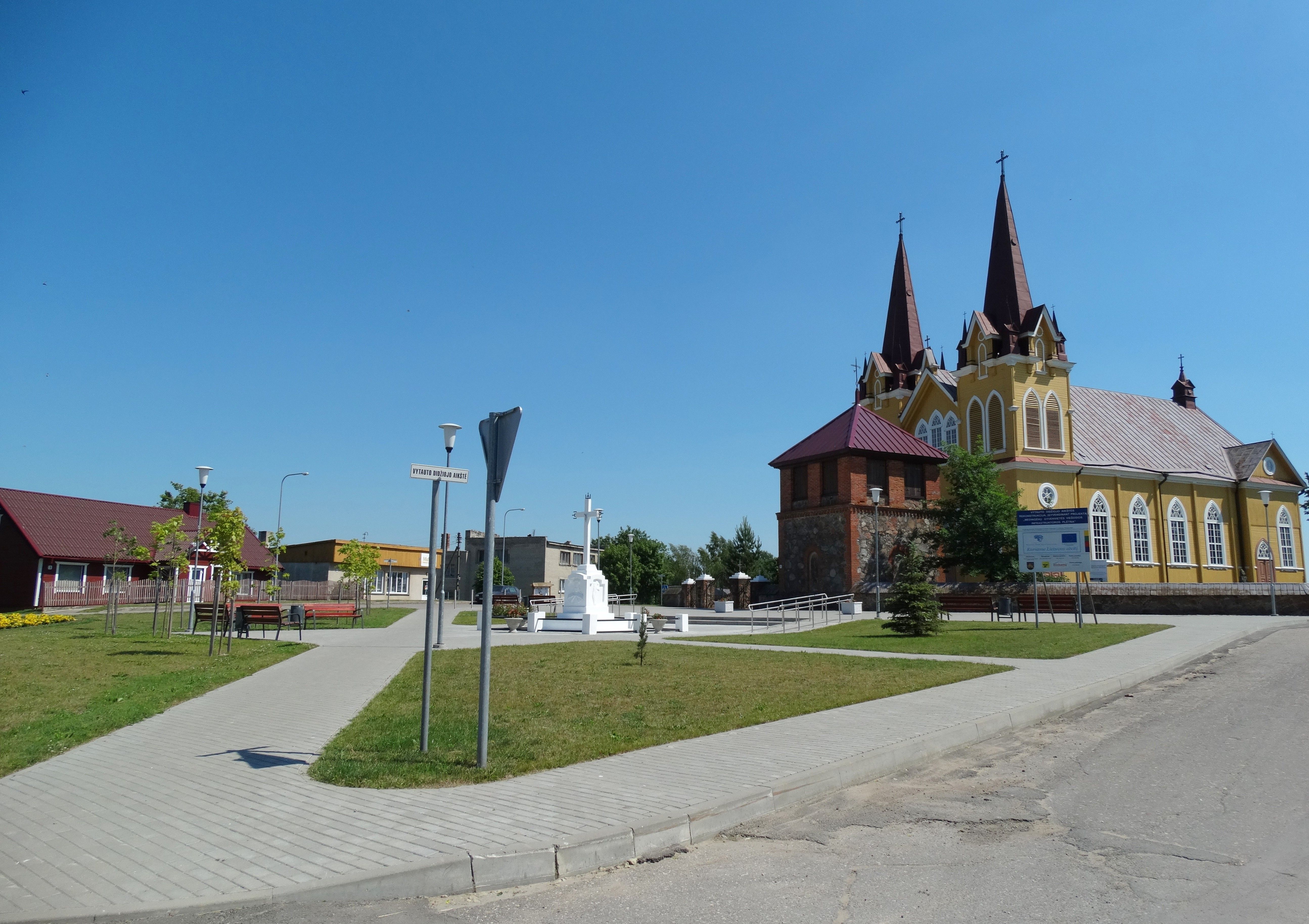 Square in Medingėnai, Rietavas Municipality, Lithuania